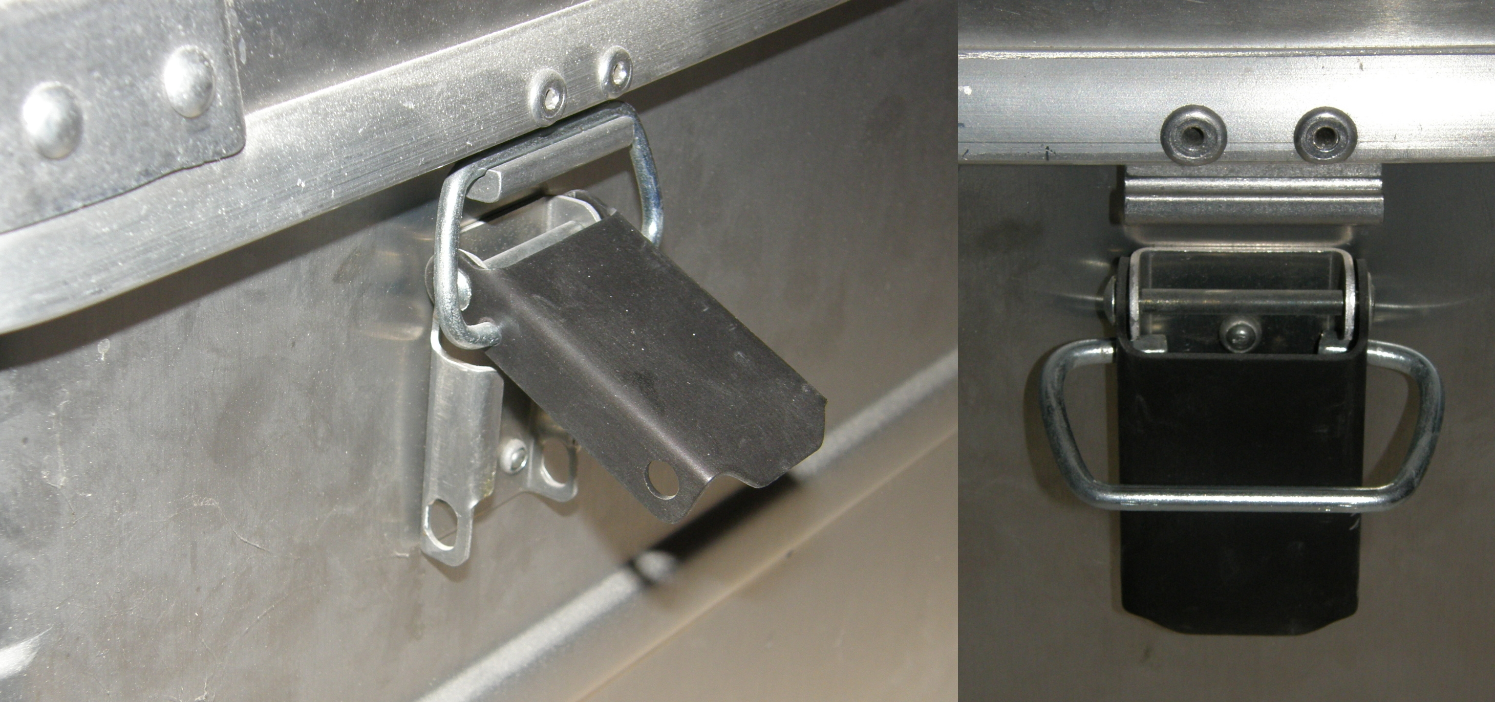 Box-fasteners